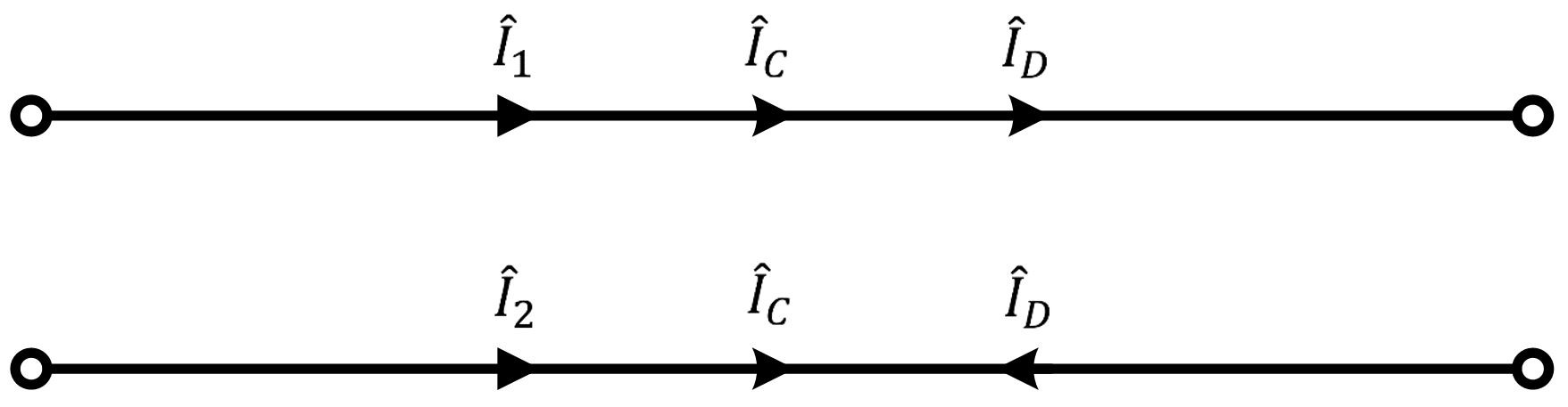 current in two wires